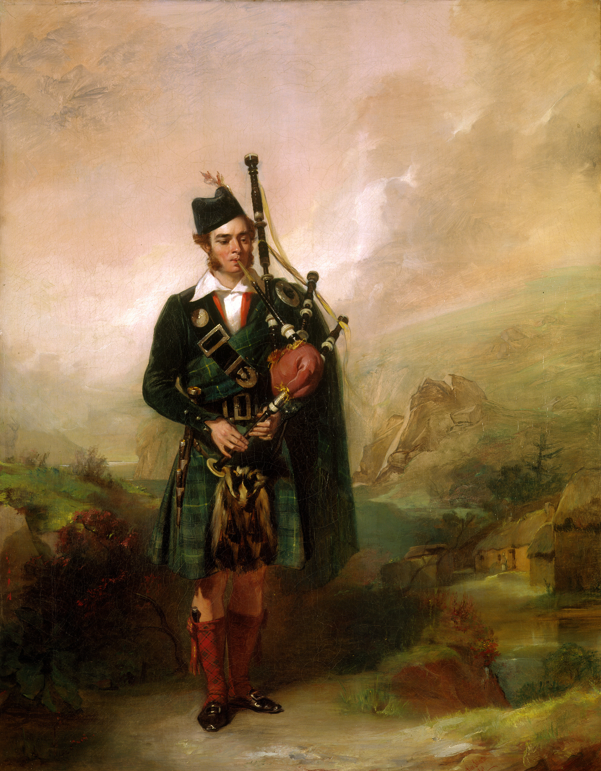 Angus Mackay, first piper to the Sovereign, painted by Alexander Johnston